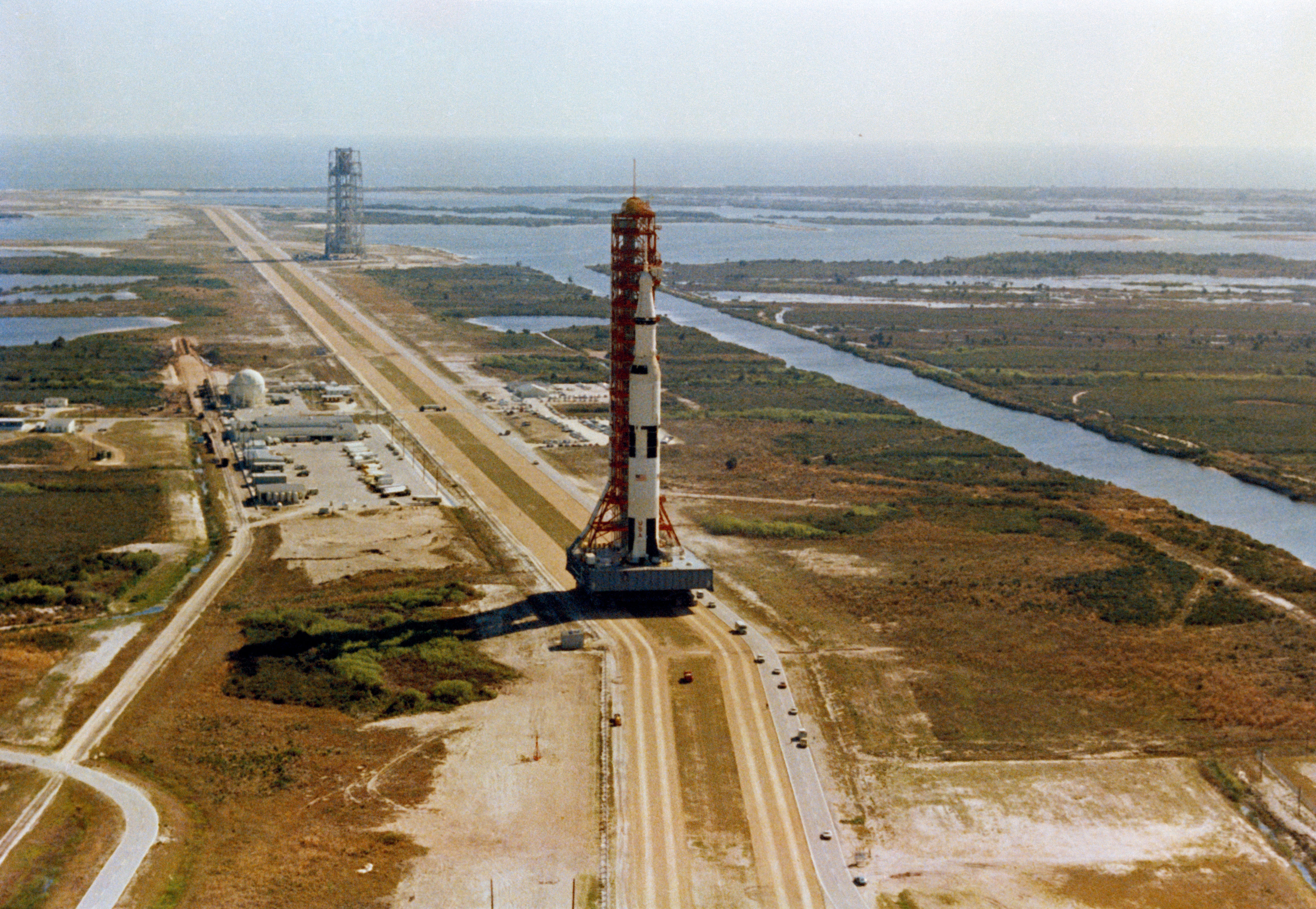 S69-27916 (11 March 1969) --- Aerial view at Launch Complex 39, Kennedy Space Center, showing the Apollo 10 (Spacecraft 106/Lunar Module-4/Saturn 505) space vehicle on its way to Pad B. The Saturn V stack and its mobile launch tower are atop a huge crawler-transporter. The Apollo 10 flight is scheduled as a lunar orbit mission. The Apollo 10 crew will be astronauts Thomas P. Stafford, commander; John W. Young, command module pilot; and Eugene A. Cernan, lunar module pilot.